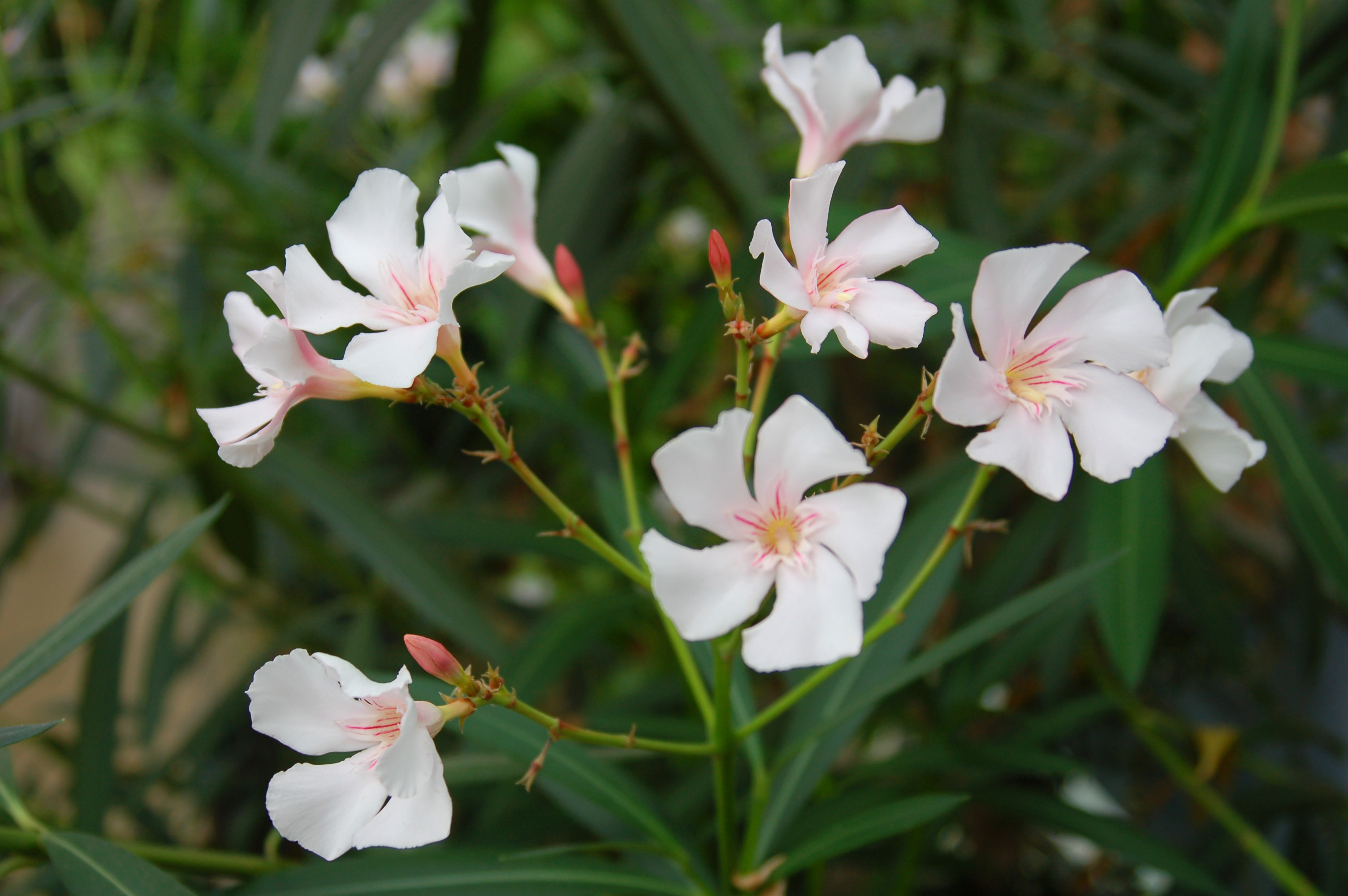 Nerium oleander - "botanika" Bremen